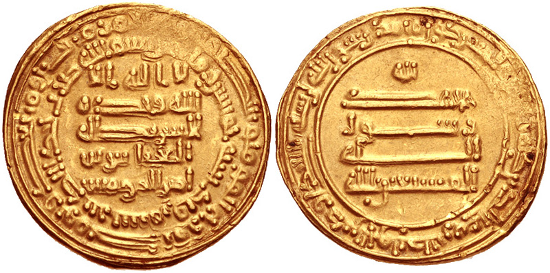 ISLAMIC, 'Abbasid Caliphate. Al-Musta'in. AH 248-252 / AD 862-866. AV Dinar (21mm, 4.22 g, 9h). Citing Abu’l-‘Abbas as heir. Samarqand mint. Dated AH 250 (AD 864/5). Album 233.2. VF, a few marks, areas of flatness. Rare mint.